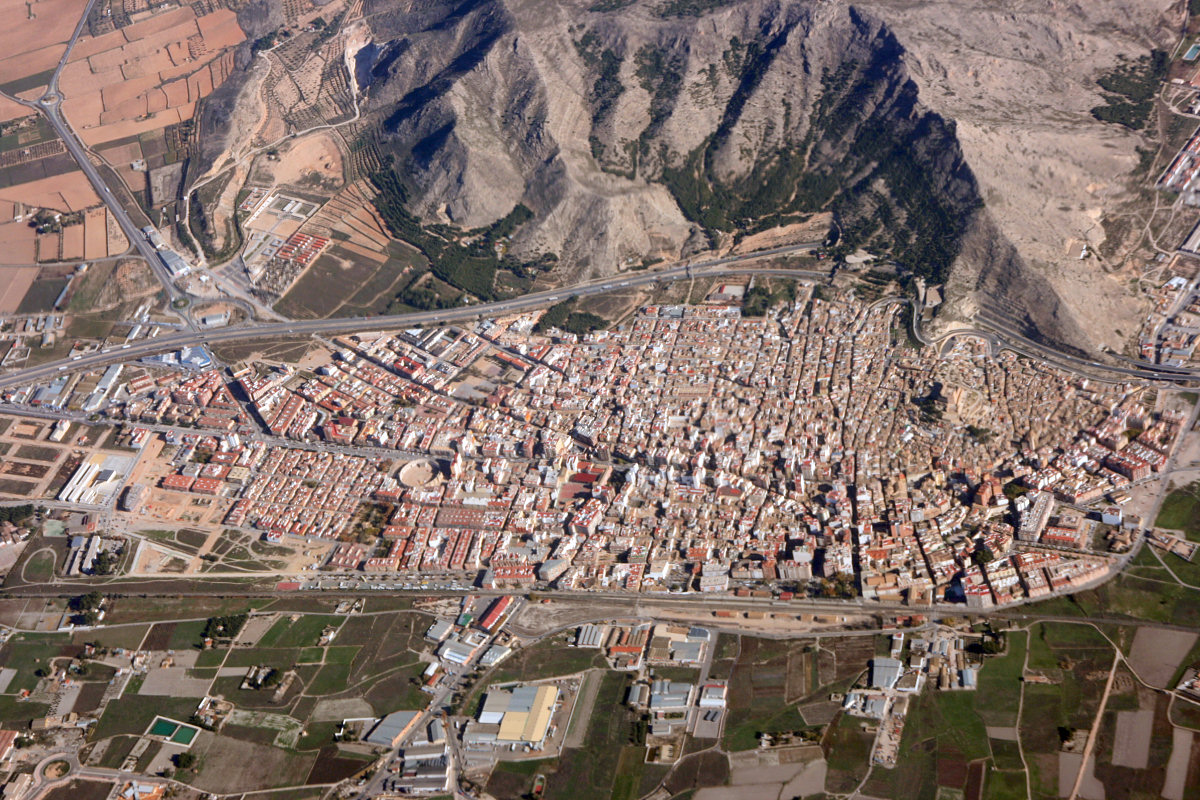 Villena - town in Alt Vinalopó region of Alicante province in Spain. The highway between the town and the hills is Spanish Autovía A-31 and its tunnel.